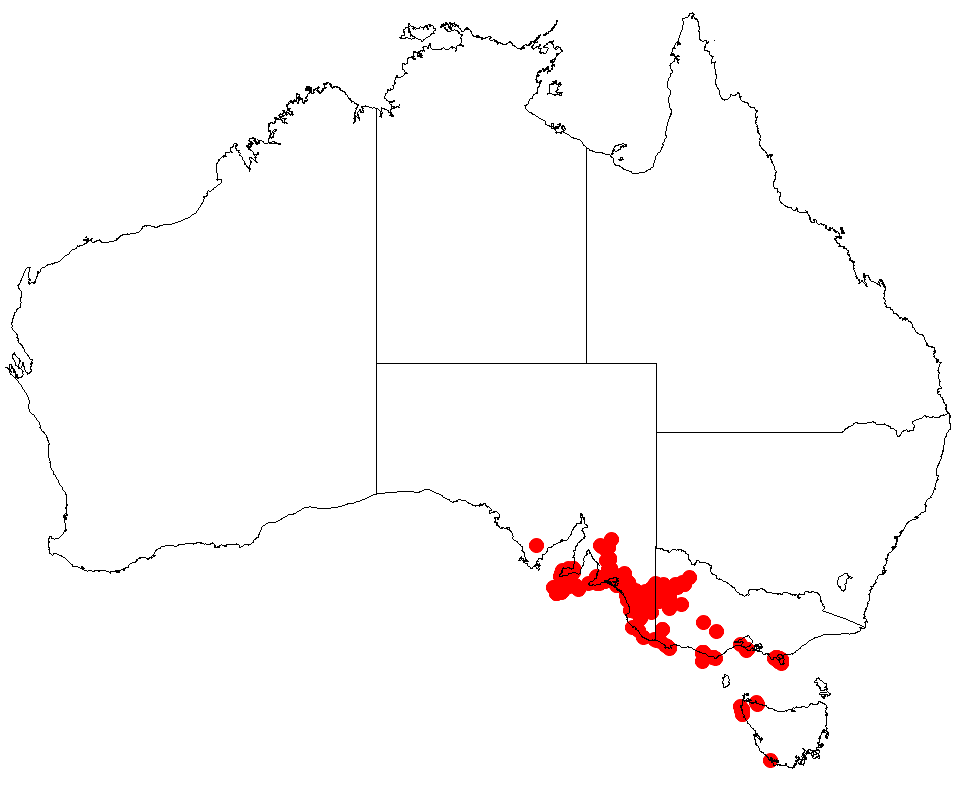 Acrotriche affinis Occurrence data from Australasian Virtual Herbarium downloaded 23 November 2018 using